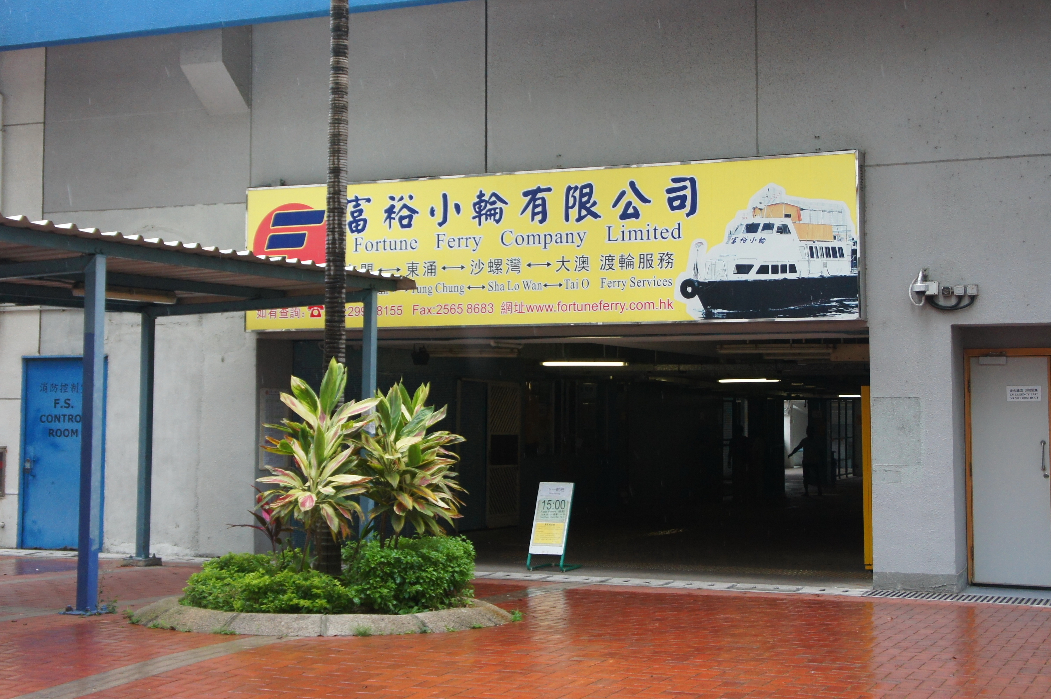 Fortune Ferry Company at the Tuen Mun Ferry Pier, Tuen Mun, New Territories, Hong Kong.